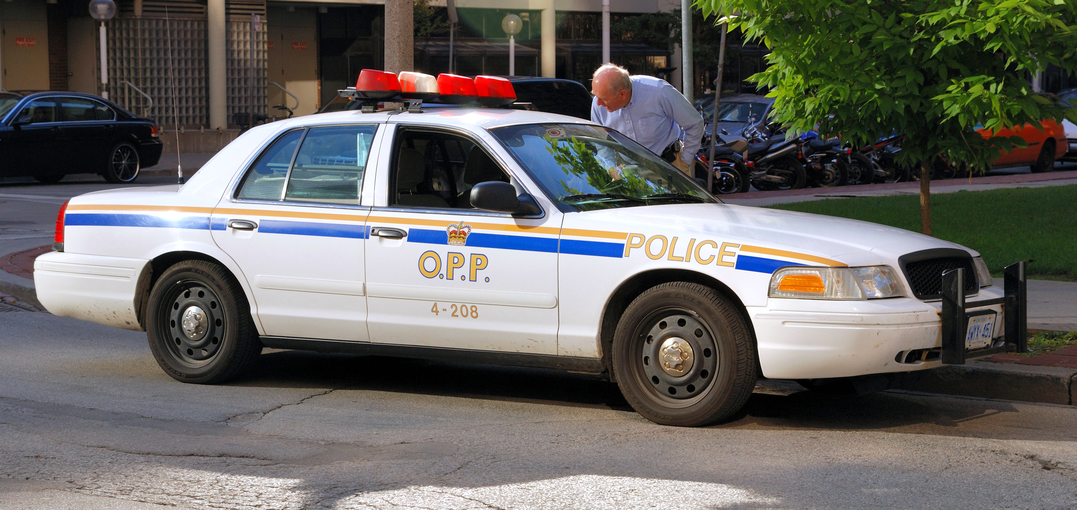 O.P.P.-Police car in Toronto